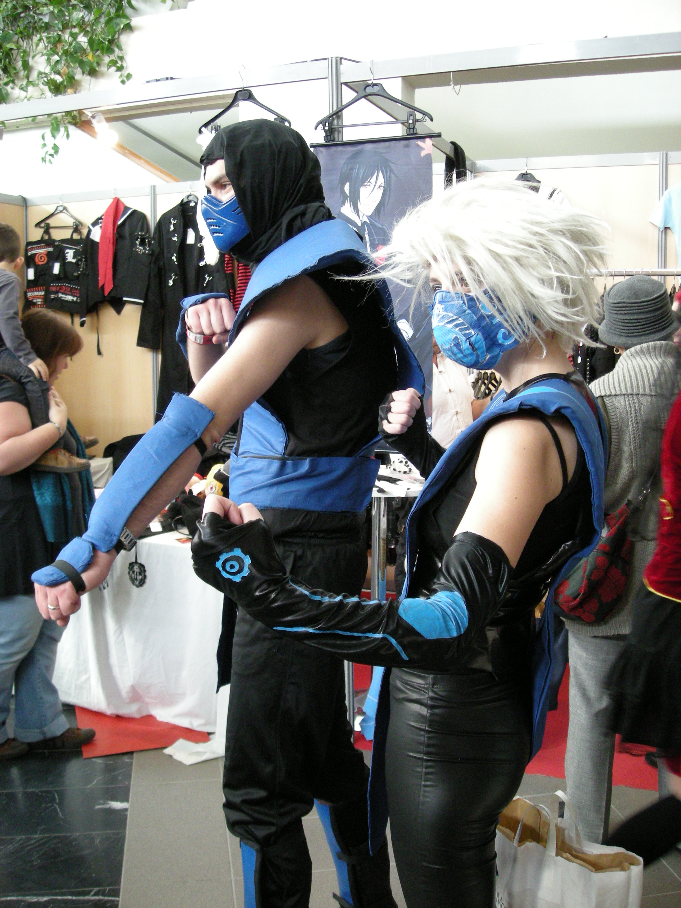 Taken on November 28, 2010 Haute-Garonne, Midi-Pyrenees, FR Nikon Coolpix L12